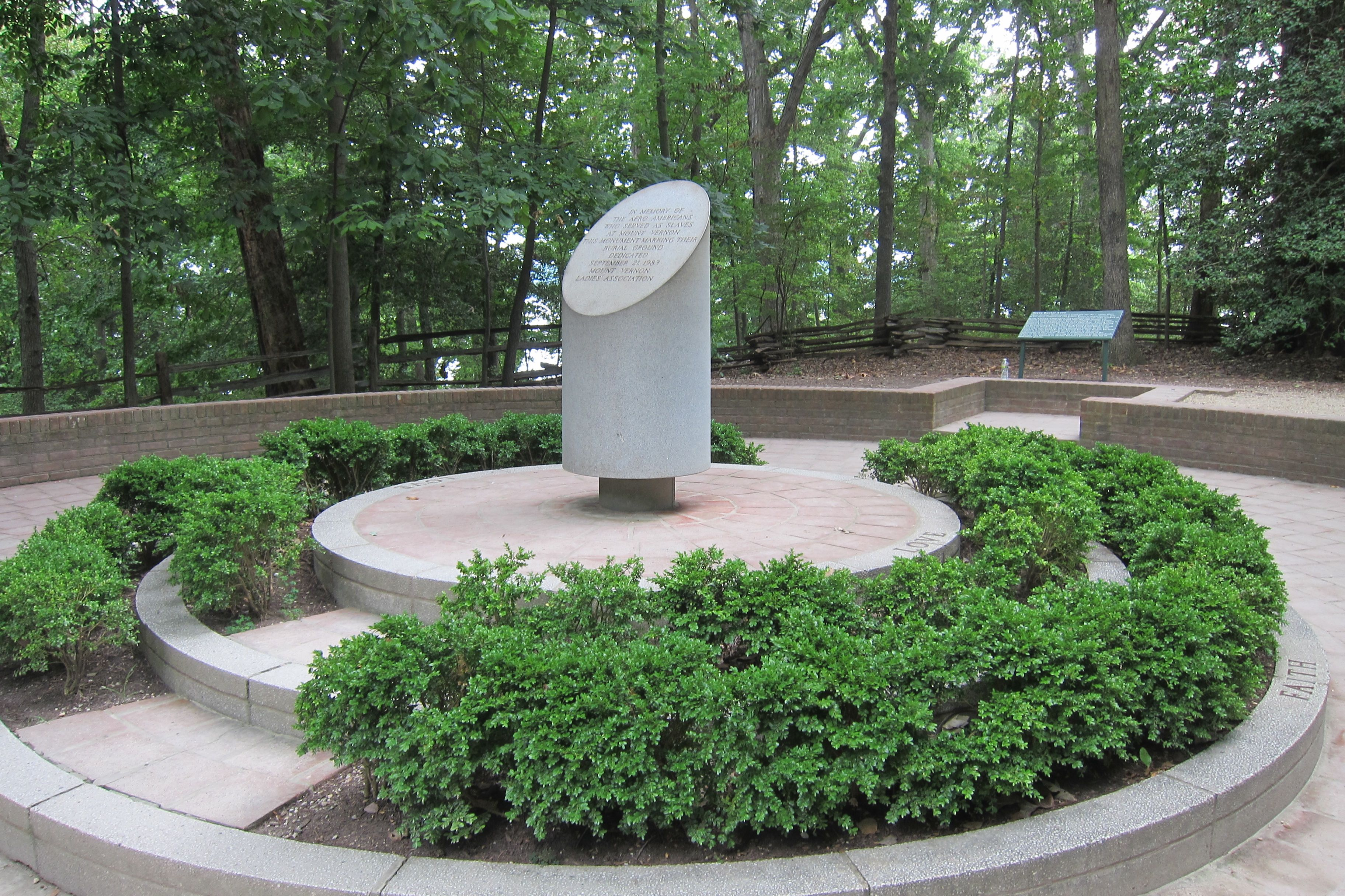 වහල් සේවකයන් පිණිස ඉදි කරන ලද ස්මාරකය ඇත්තේ ඔවුන් වළලන ලද බිම් පෙදෙසේ ය.